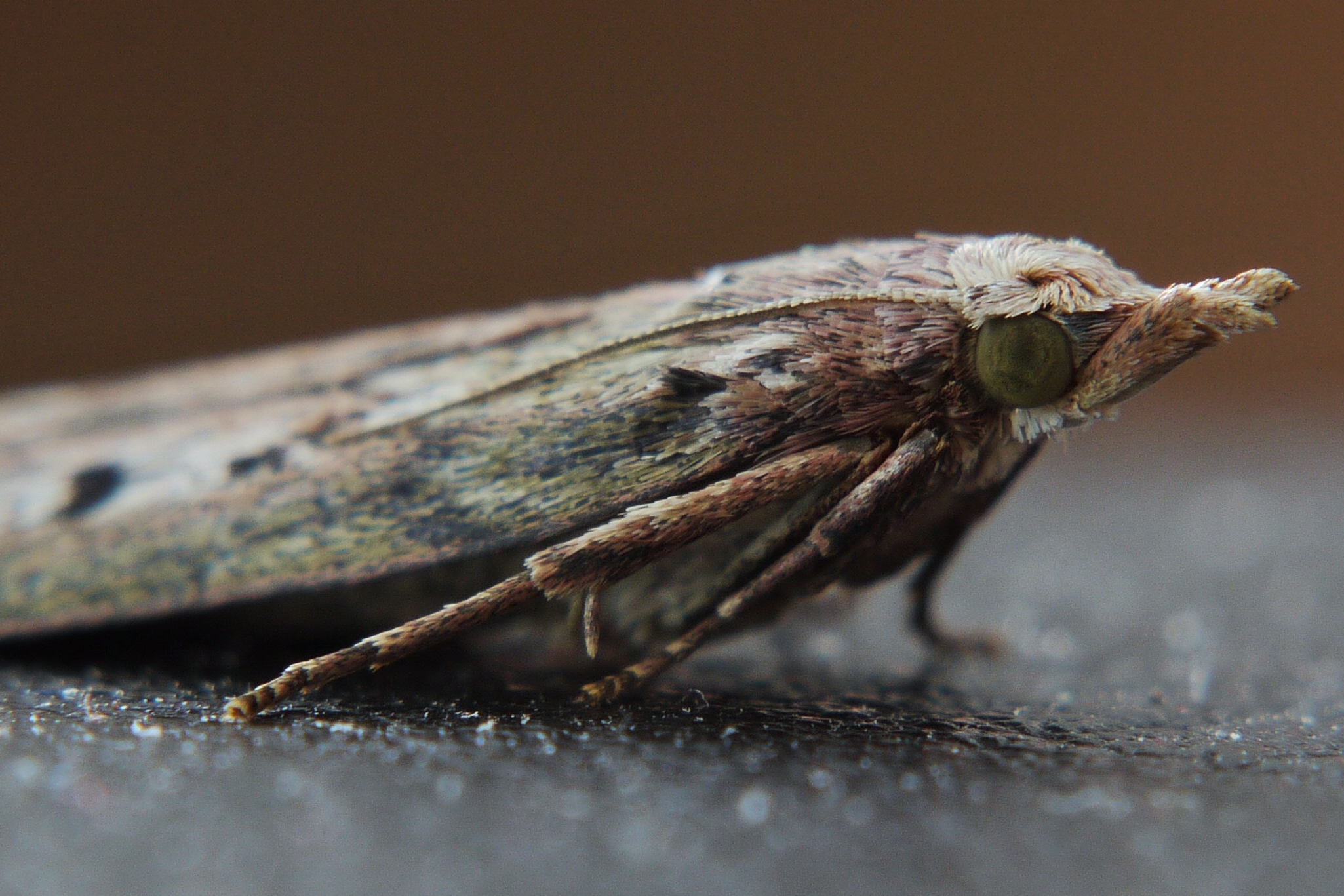 Female bee moth Aphomia sociella, about 2 cm in length (nose not included